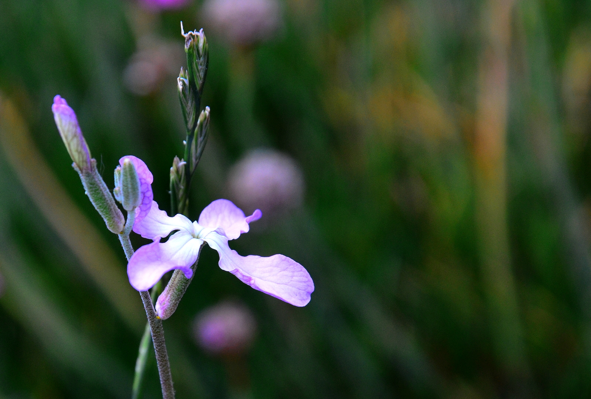 Night-scented Stock flower